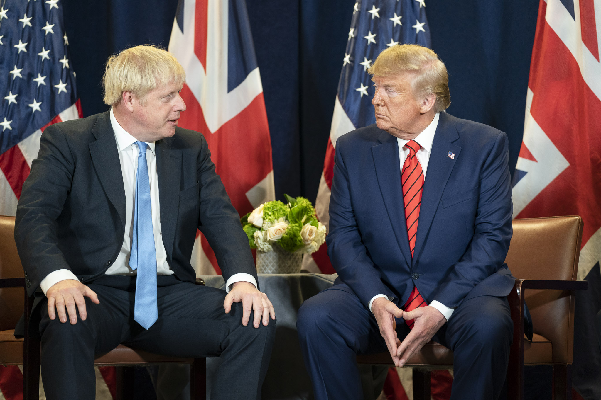 President Donald J. Trump participates in a bilateral meeting with British Prime Minister Boris Johnson Tuesday, September 24, 2019, at the United Nations Headquarters in New York City. Vice President Mike Pence attends. (Official White House Photo by Shealah Craiughead)